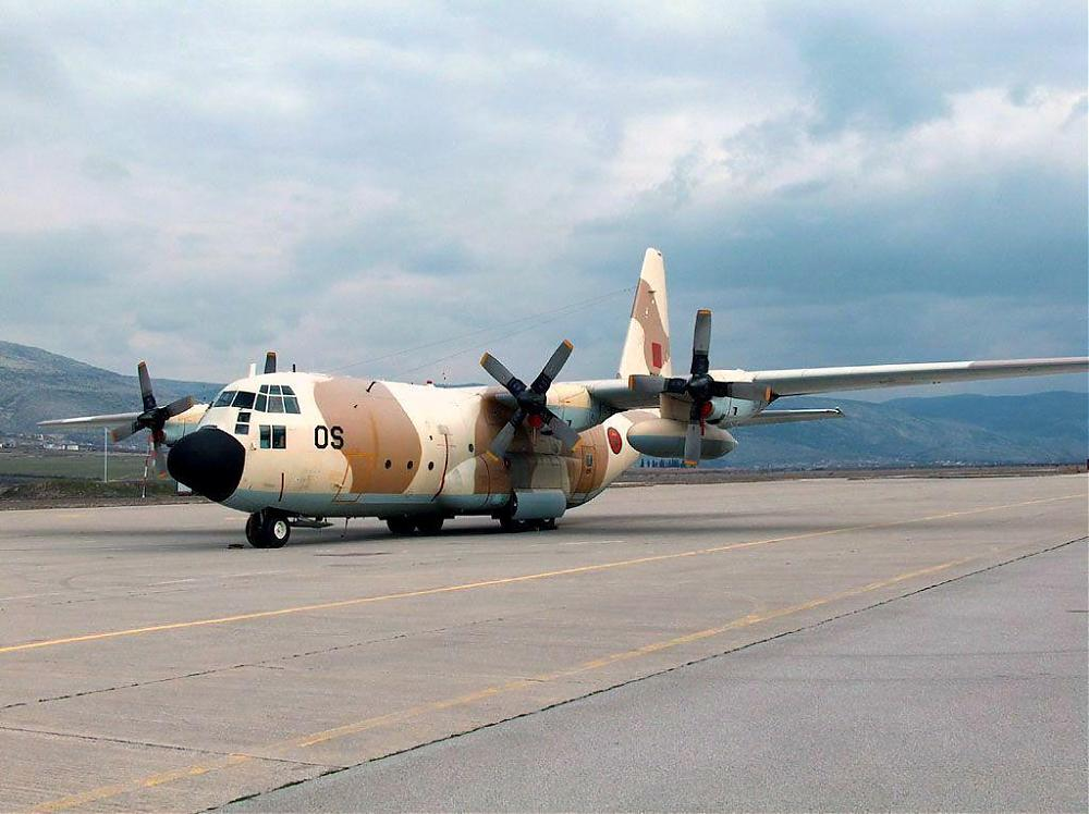 C-130H